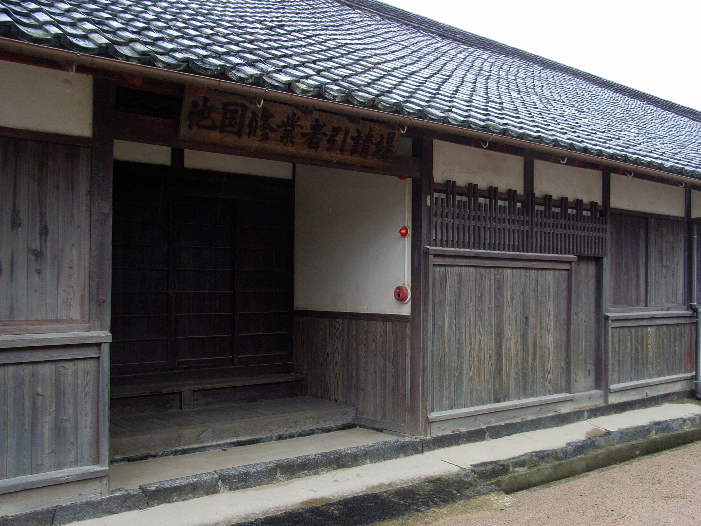 Hagi Meirinkan.